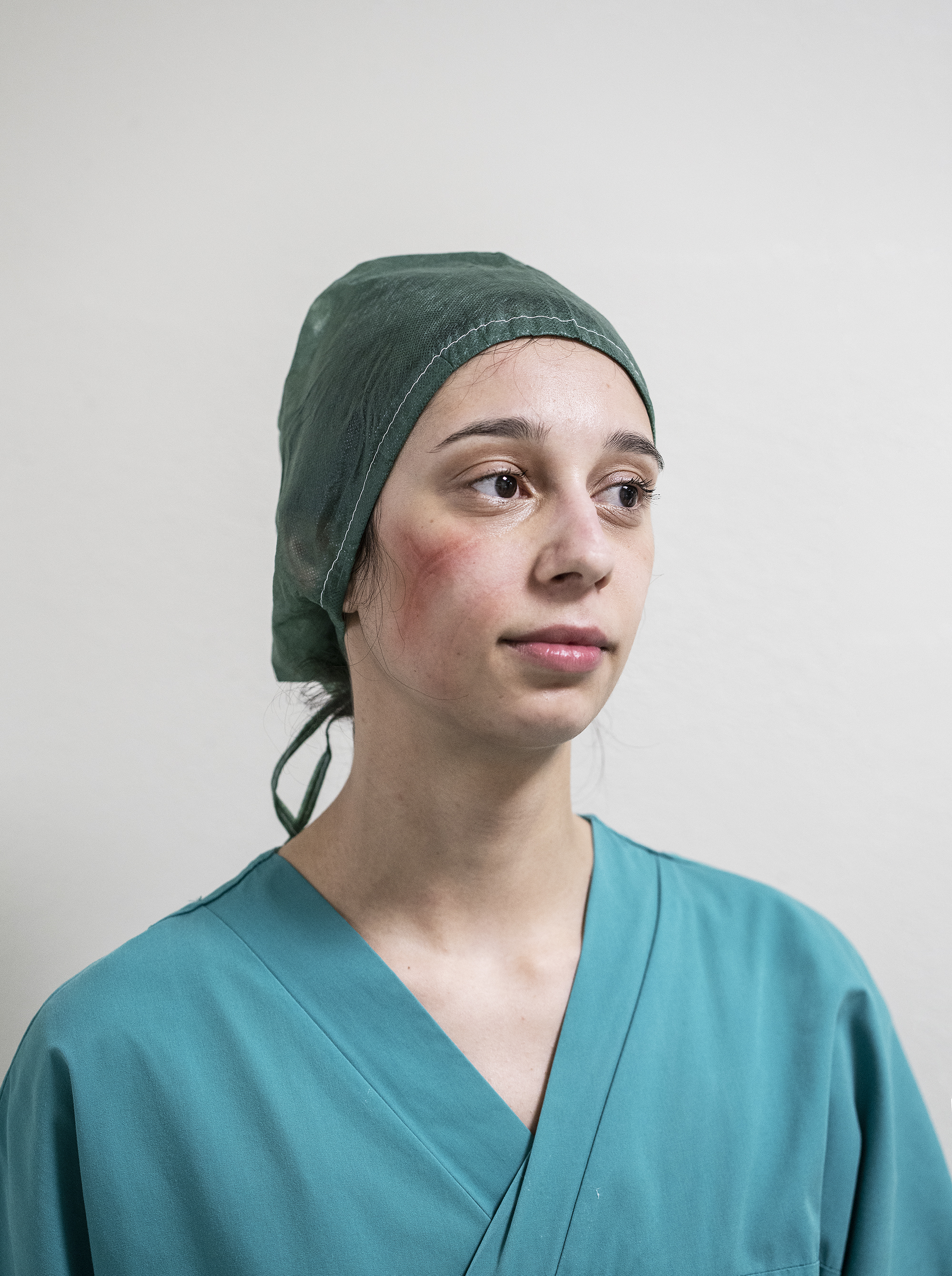 These are the doctors and nurses of the San Salvatore Hospital in Pesaro, Italy, the city of my birth and where I once again reside, which from day one has sadly been at the top of the COVID-19 contagion and death charts. I photographed them at the end of their shifts—twelve hours without a break during their fight in an unequal war. In the quiet moments in front of my camera, these embattled individuals are in a state of total abandon, victims of an exhaustion that eats away at the body and the mind, a breathlessness that renders one disoriented, detached from time and space. They would take off their masks, caps, and gloves in front of my lens, remaining motionless, looking for some sort of normalcy amid the hell they were living.